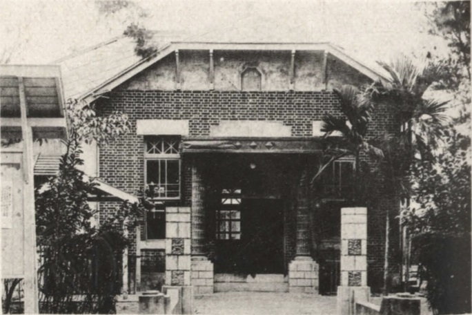 小港庄役場